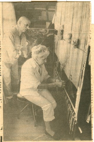 Edmond Boissonnet portrait.